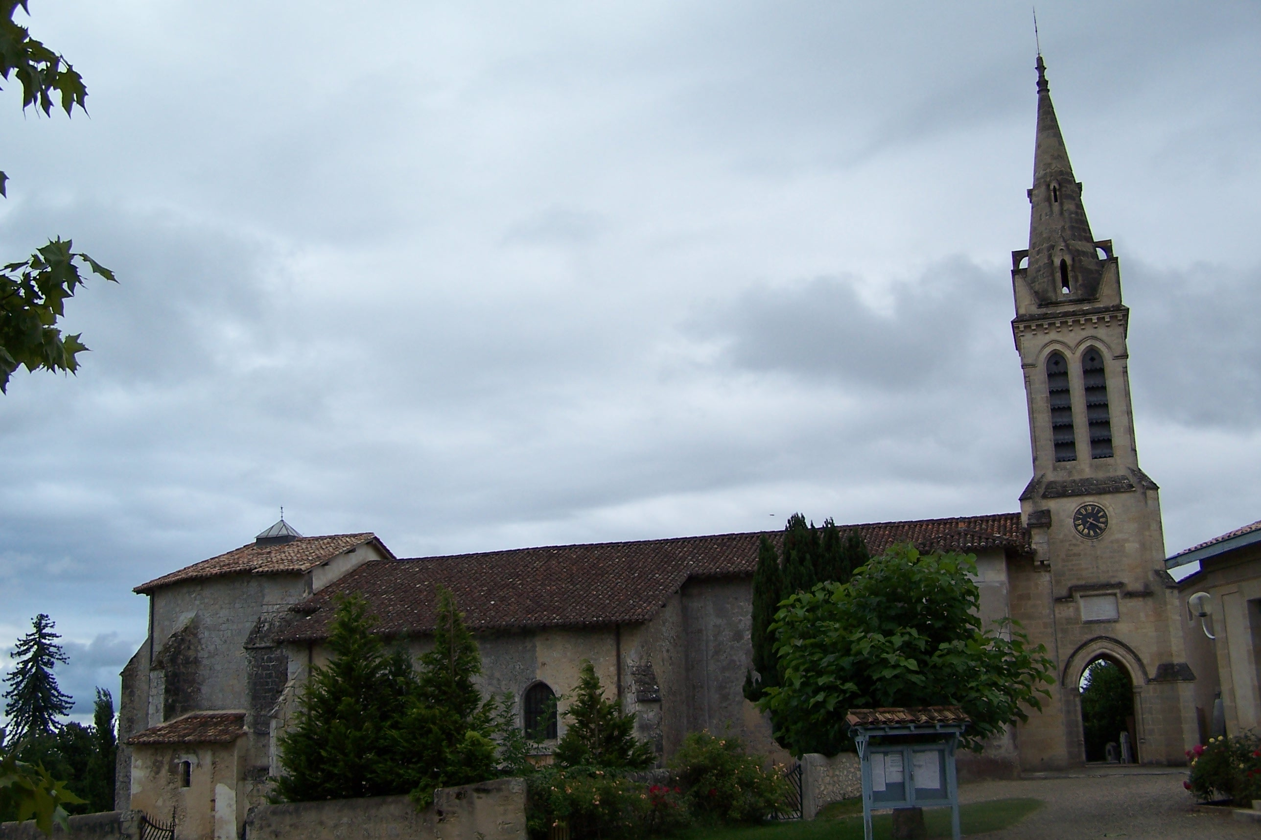 Church Our Lady in Bernos-Beaulac (Gironde, France)